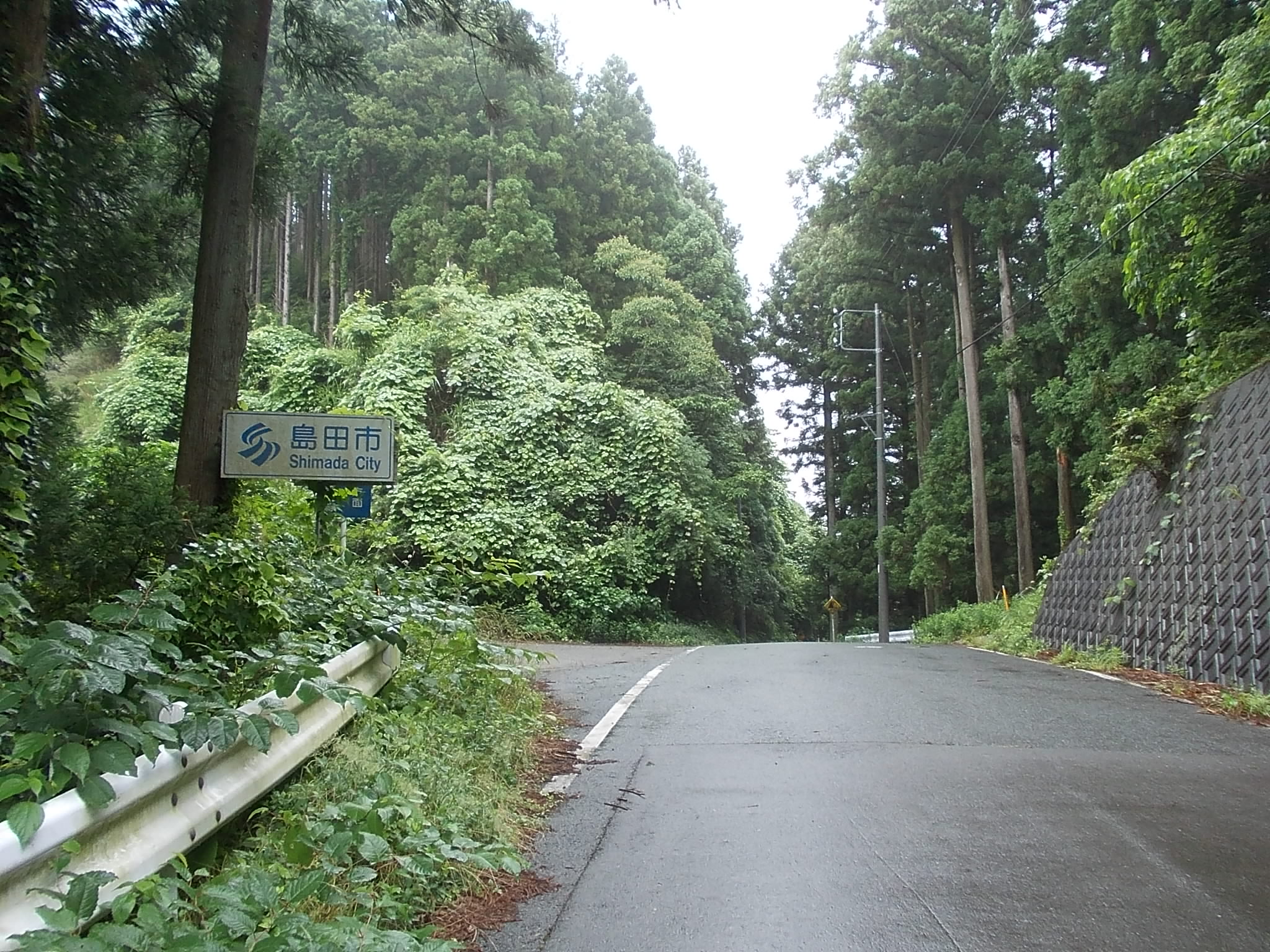 Kakegawa - Shimada border, Shizuoka prefectural Route 81, Kakegawa, Shizuoka